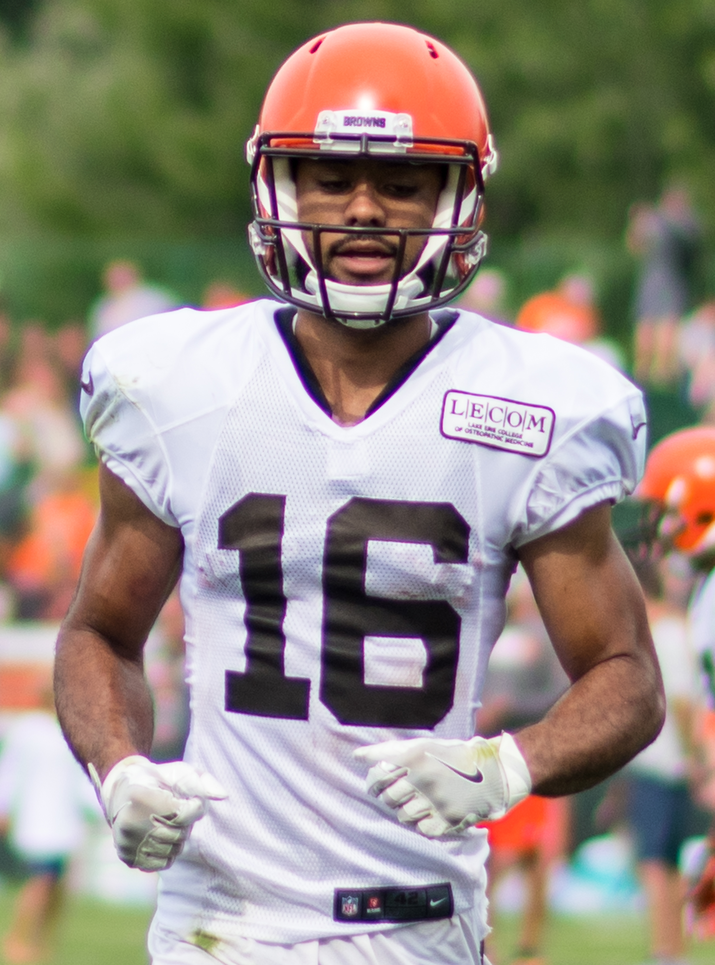 Cleveland Browns Training Camp